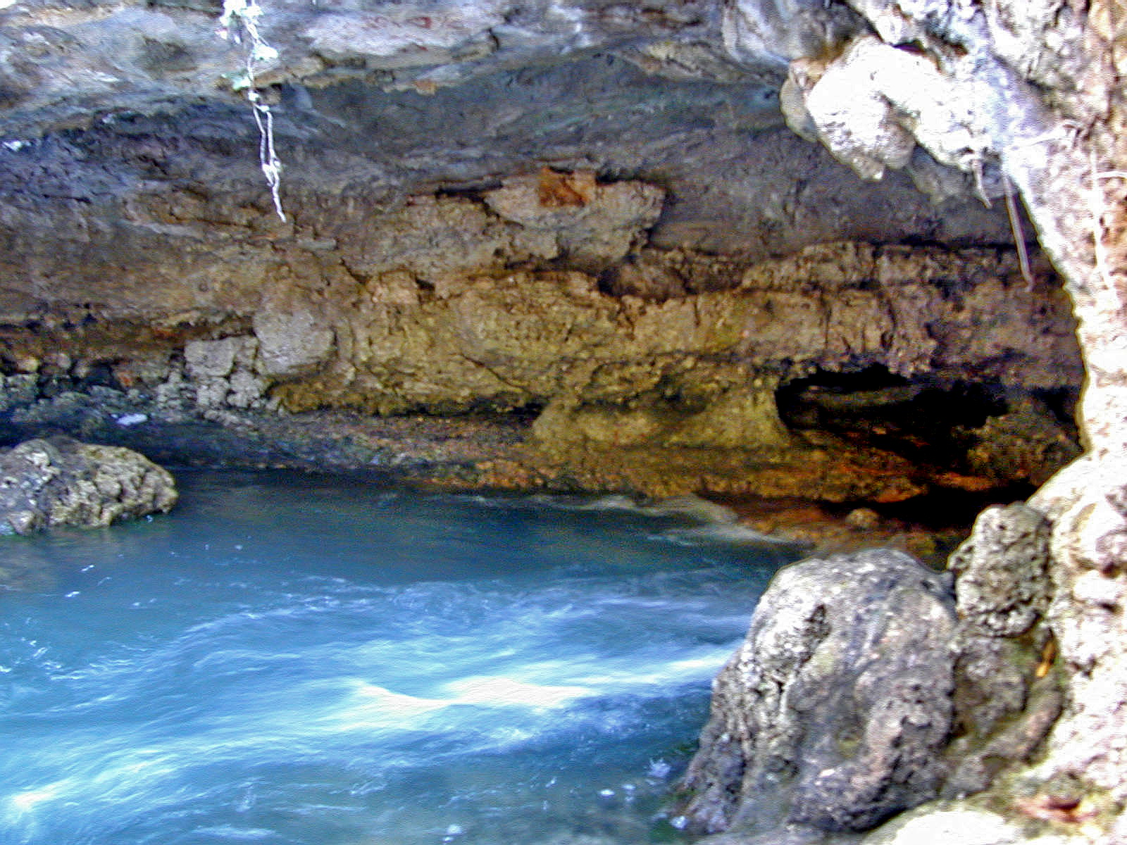 Foux cave in Saint-Cézaire (Var) after a storm